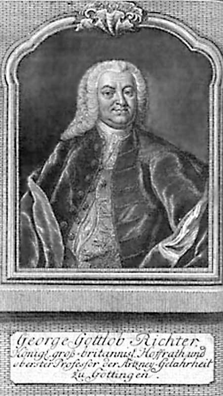 Georg Gottlob Richter (1694-1773), german Physicians.